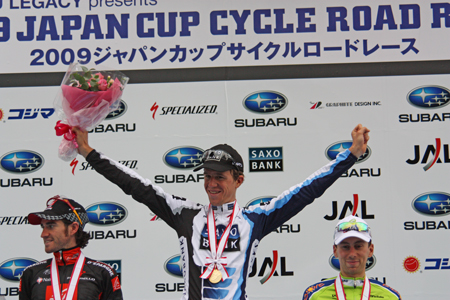 Japan Cup Cycle Road Race 2009.